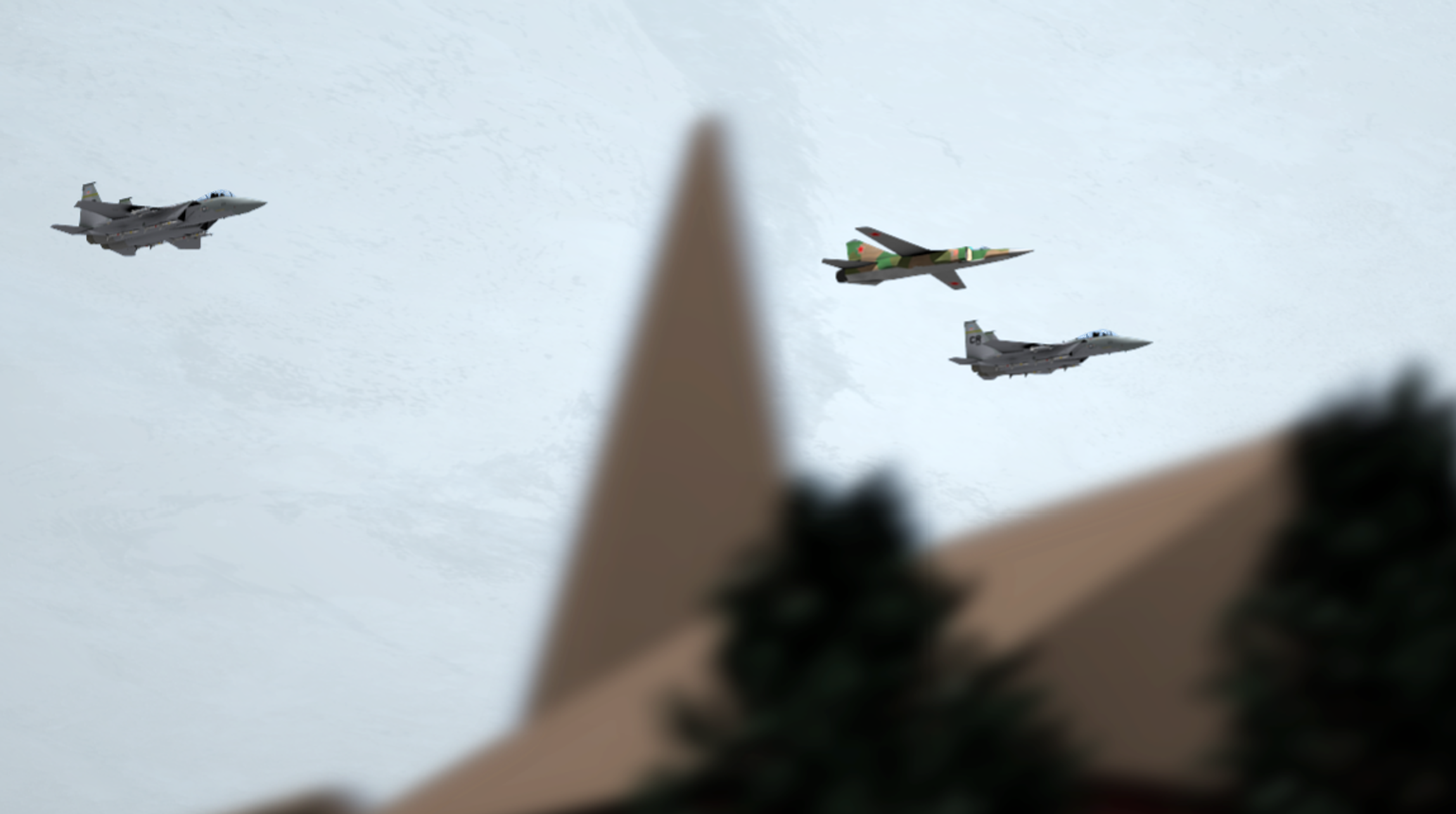 Illustration of two F-15s following a MiG-23 whose pilot ejected just after takeoff.